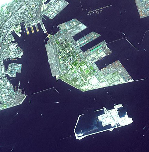 Satellite image of Port Island, an artificial island which is part of Kobe in Japan. This is a closeup, showing the artificial island in the bay and the airport island when it was still under construction. For the full picture see Image:Wfm kansai overview.jpg According to the original name of the file, the photo was taken in February 2003. It is outdated now, the airport is operational since Feb 2006.